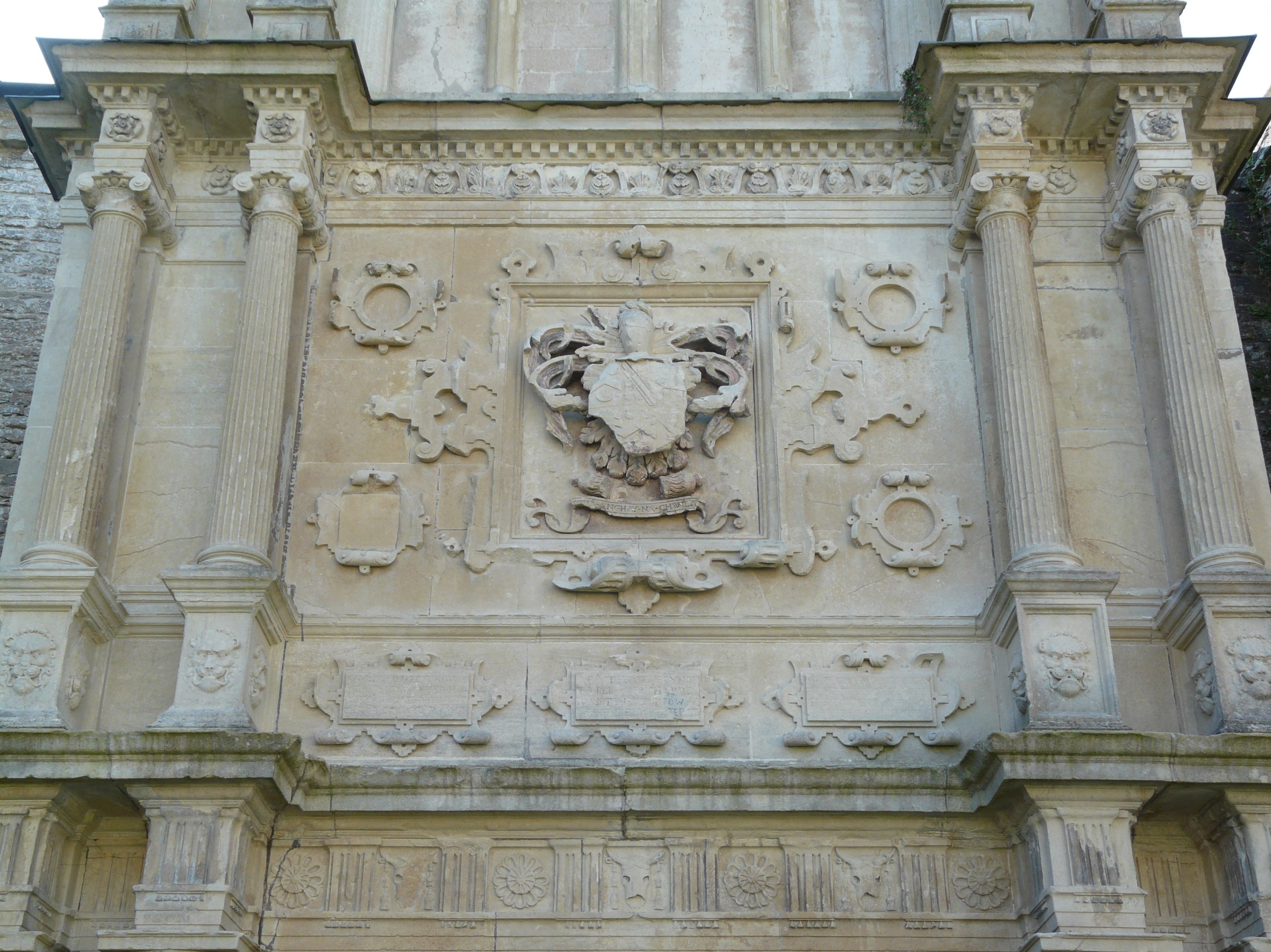 Old Beaupre Castle, Vale of Glamorgan, Wales Wikidata has entry Q17743884 with data related to this building.